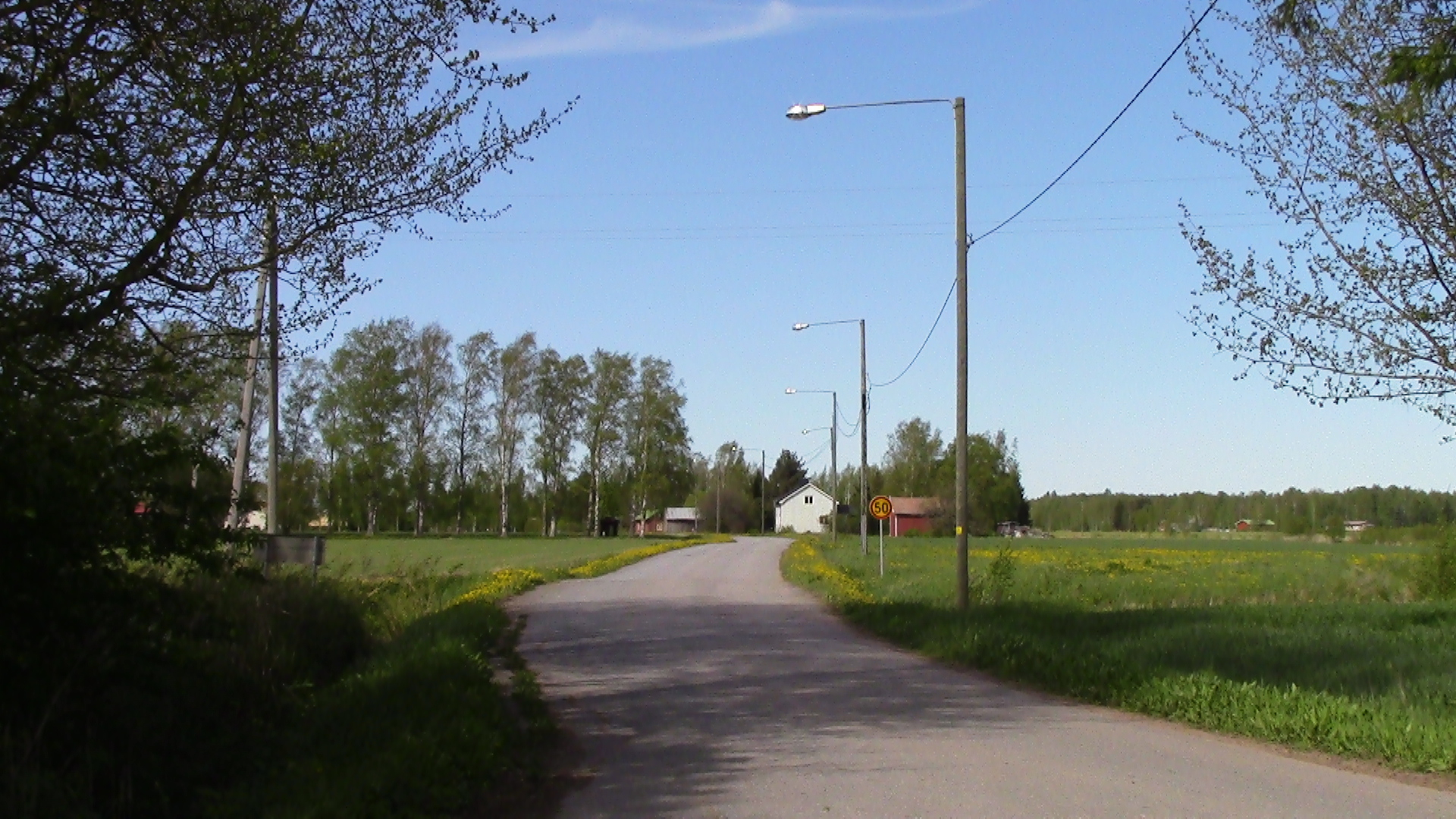 Tattarantie road as seen from the crossing of Alhontie and Vinojantie roads at Tattara village in Nakkila, Finland.